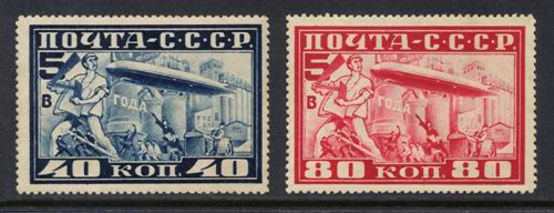 Stamps of the Soviet Union, 1930, airmail. CPA #360-361, Scott #C12-C13.